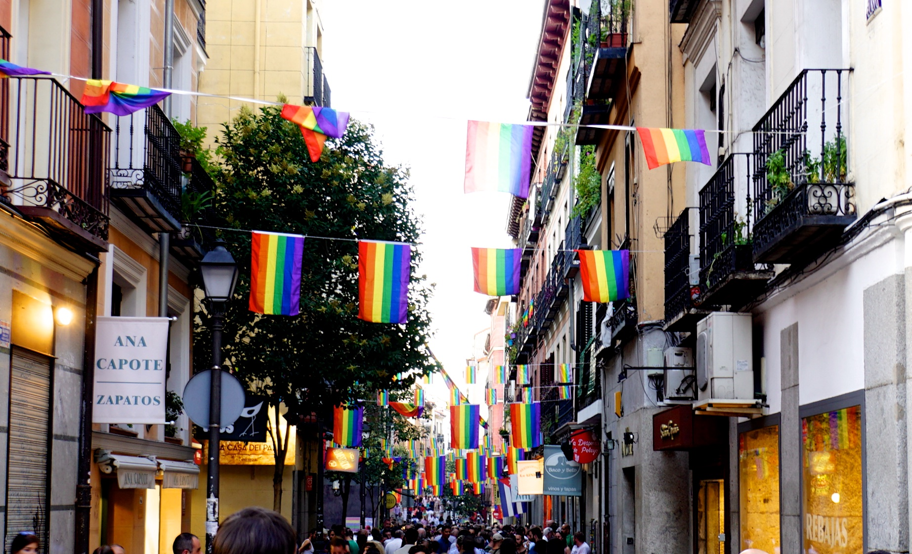 2015.07.01 Madrid Orgullo - LGBTQ Pride